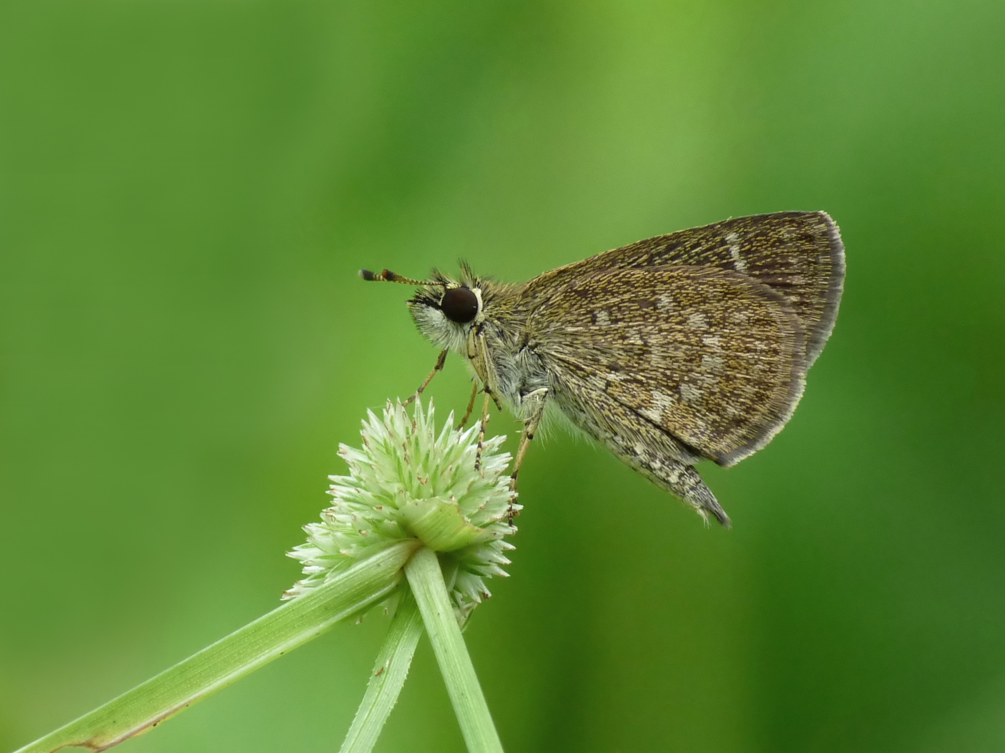 The Pygmy Scrub-hopper or Pygmy Grass-hopper (Aeromachus pygmaeus) is a butterfly belonging to the family Hesperiidae. Taken at Kadavoor, Kerala, India.